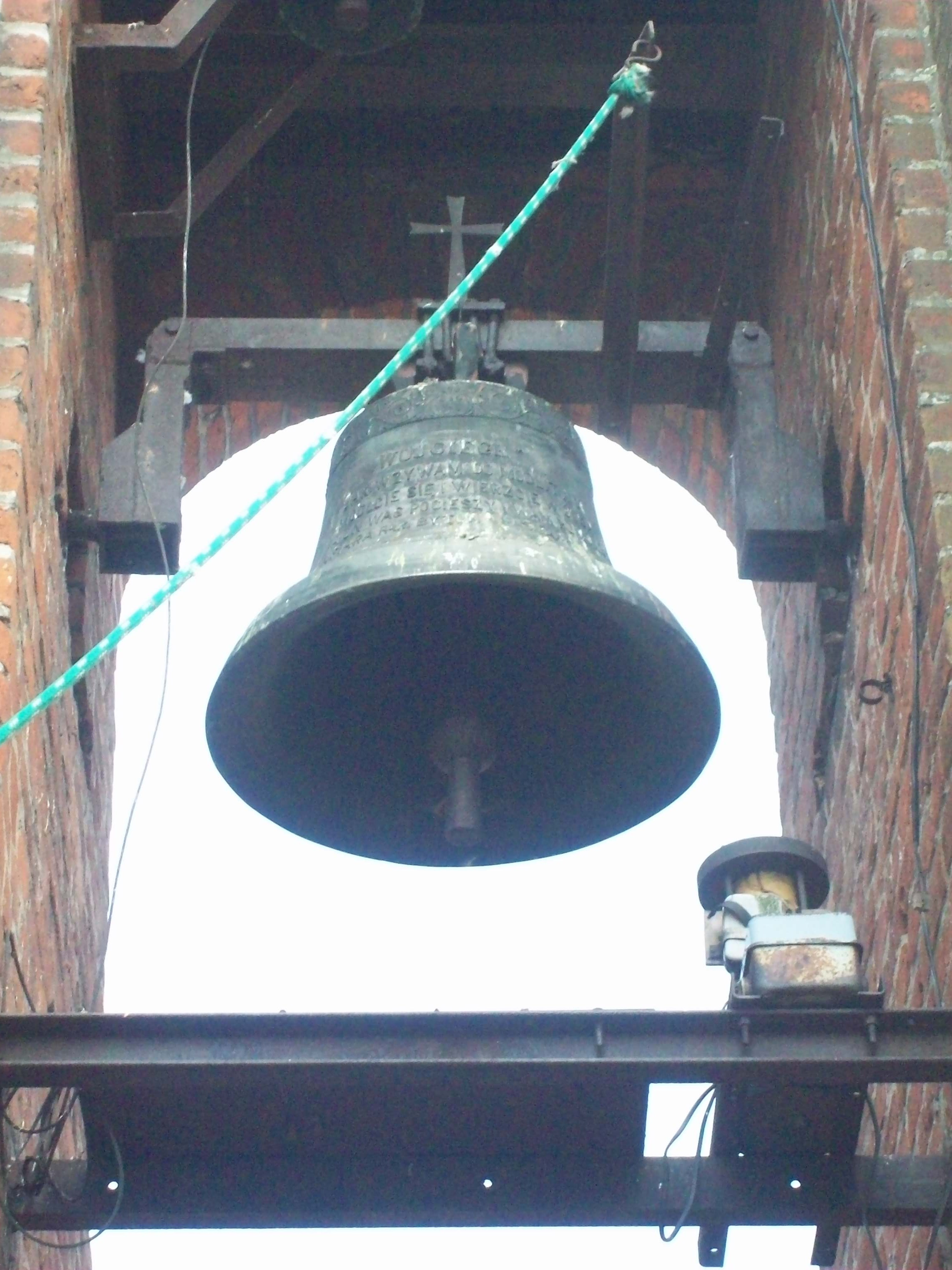 Bell named Wojciech in campanile near church in village BytoN Polska